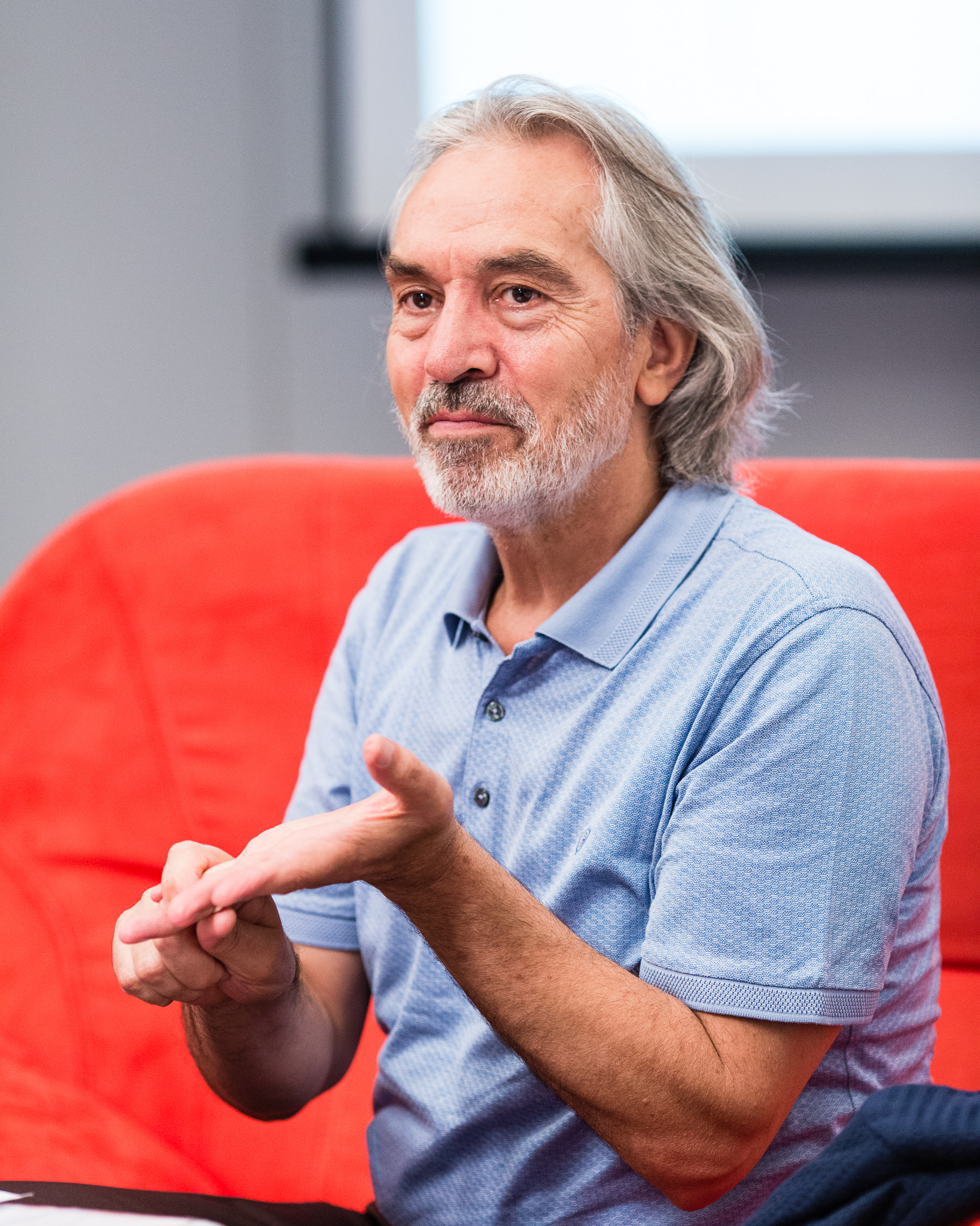 İskender Pala on Authors’ Reading Month 2018, Wrocław, Poland